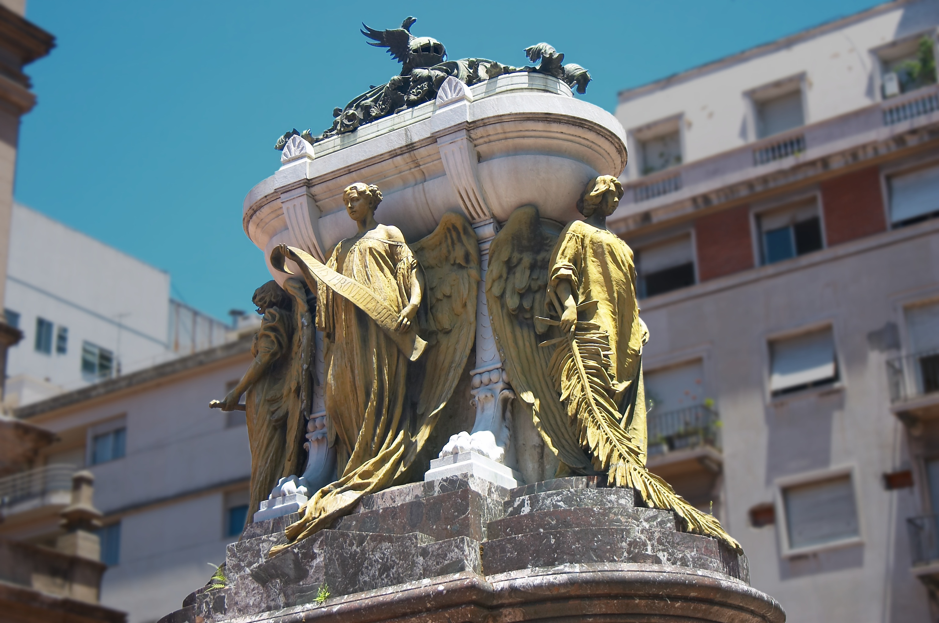 Manuel Belgrano's mausoleum, Buenos Aires, Argentina.